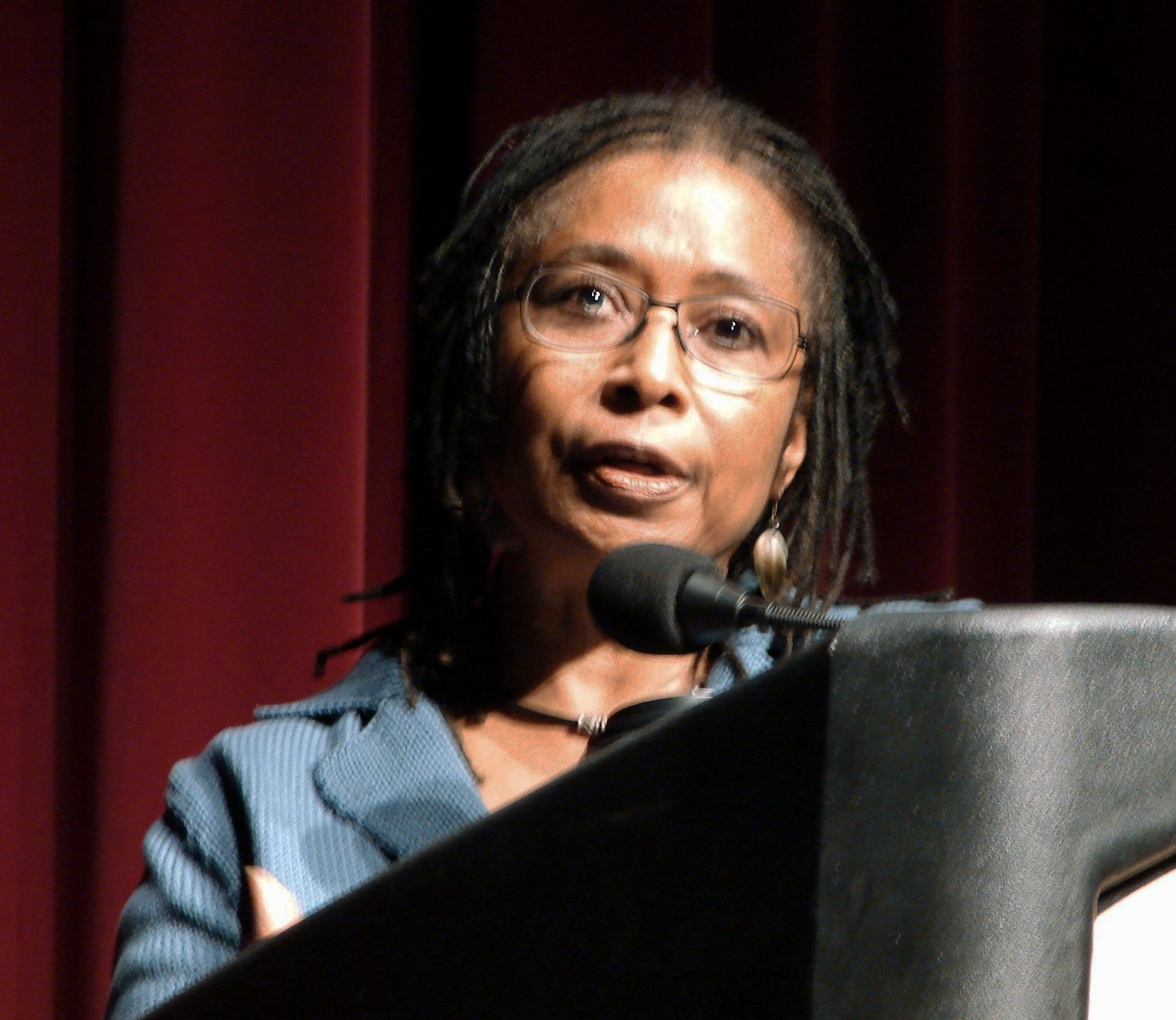 Reading and talking about "Why War is Never a Good Idea" and "There's a Flower at the End of My Nose Smelling Me" With my permission, this photo will be used on Wikipedia at